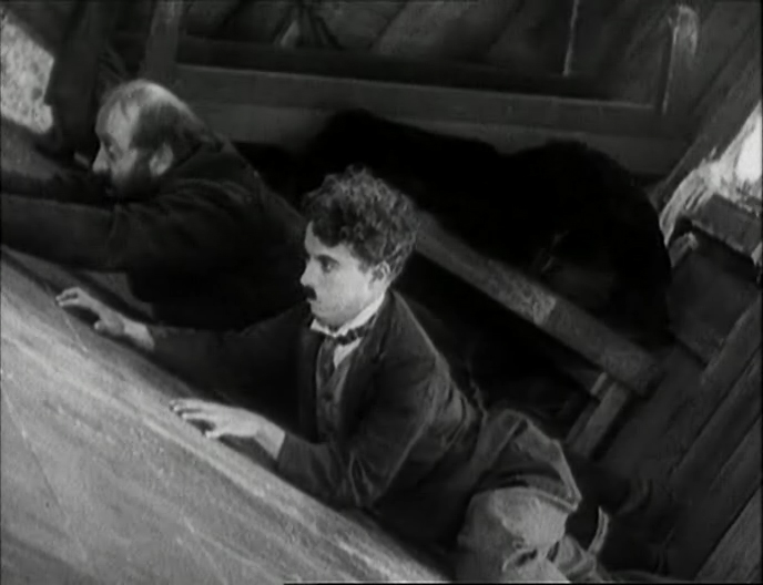 Scene from the movie The Gold Rush. 1925.